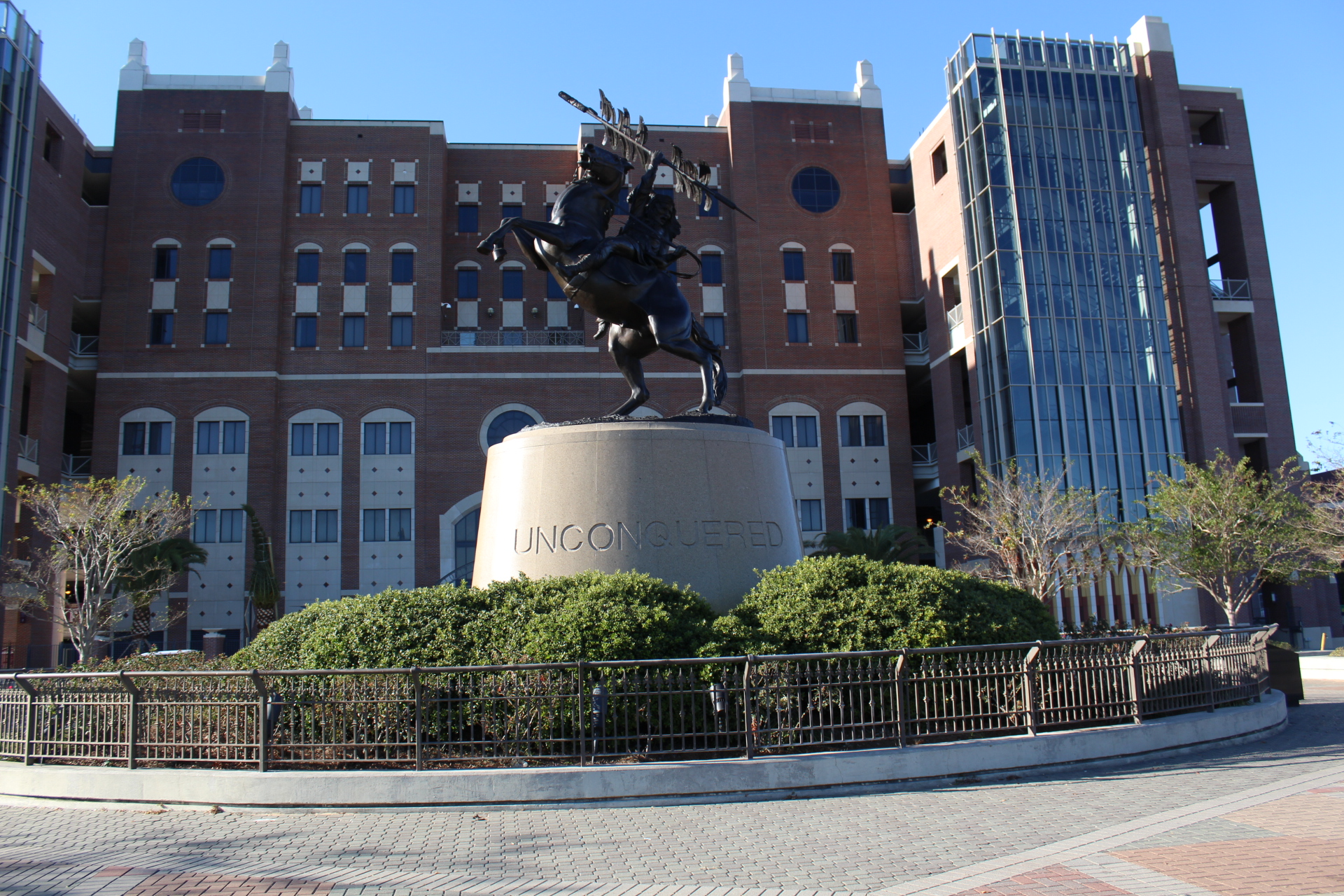 Statue in front of Florida State University's Doak-Campbell Stadium on their Tallahassee campus.